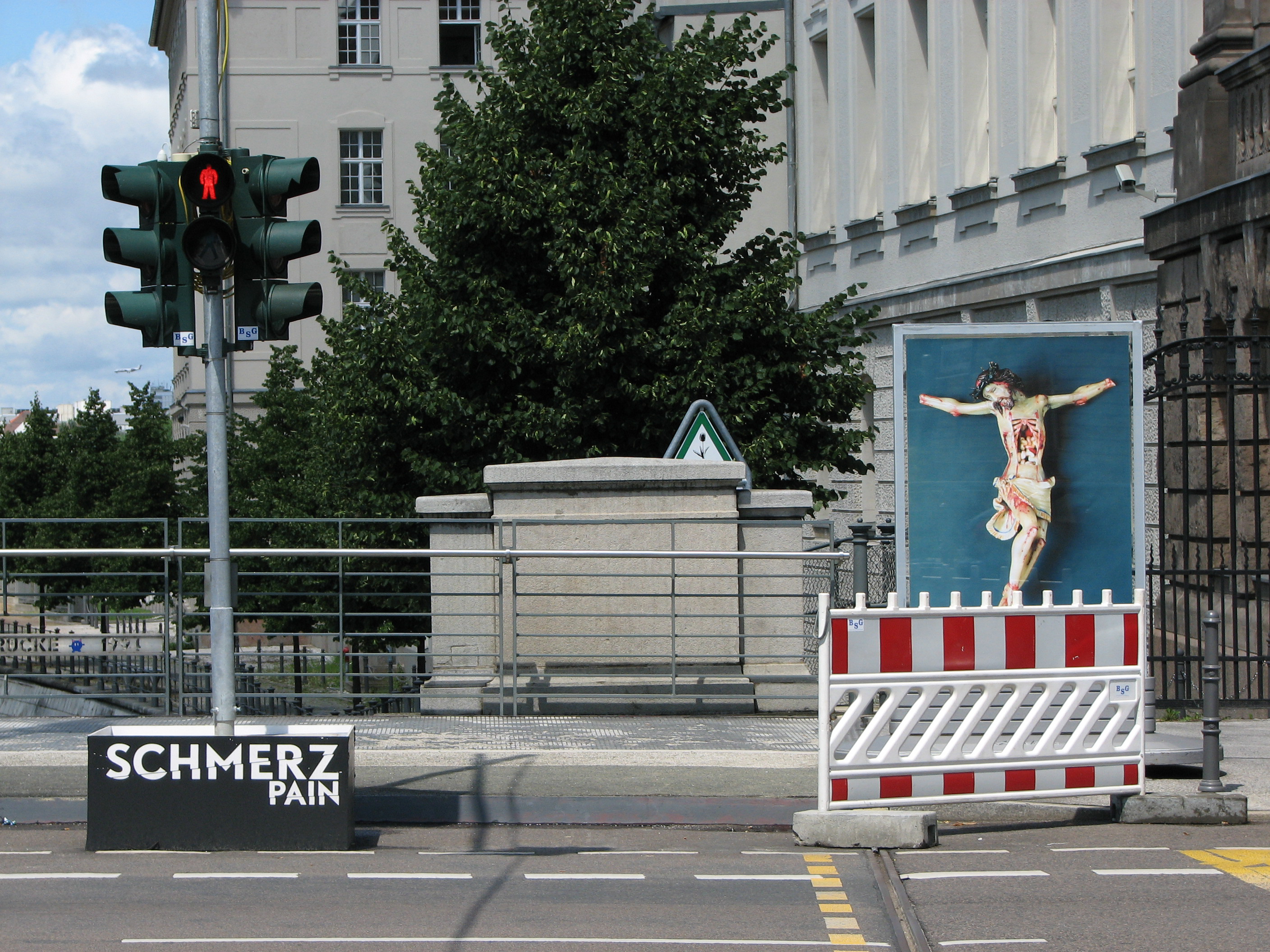 Advertisement for exhibition "Pain" in Berlin, Germany